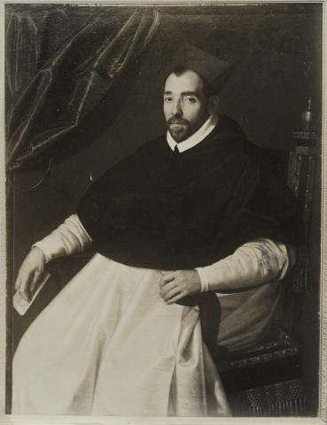 Carlo Antonio (Michele) Bonelli Ghislieri, cardinal of the Roman Catholic Church